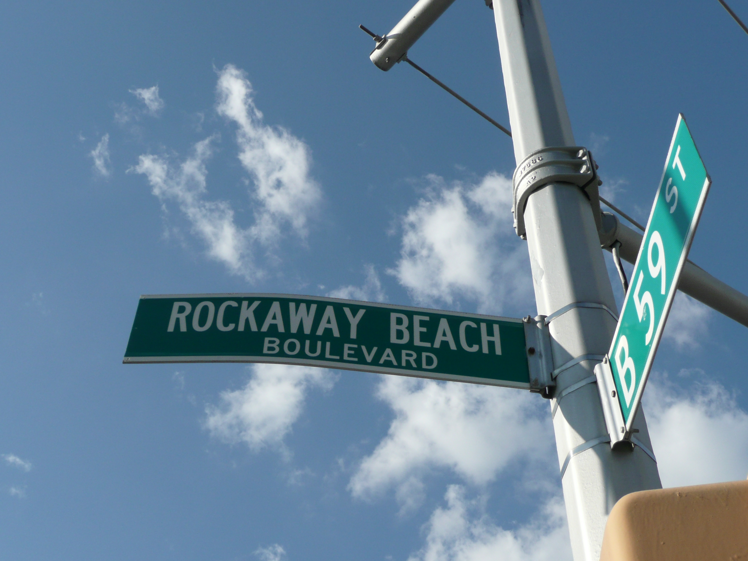 Rockaway Beach - Beach that inspired Ramones song Rockaway Beach - near the Queens, New York.